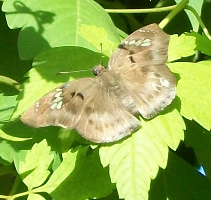 Tagiades flesus from Ilanda Wilds, Amanzimtoti.